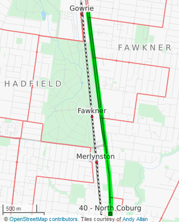 A map of the proposed extension to the Route 19 tram in Melbourne ending at Gowrie Station. Dark green (at the bottom) shows the current route, light green shows the proposed route, red lines show bus routes. Created with OpenStreetMap and .